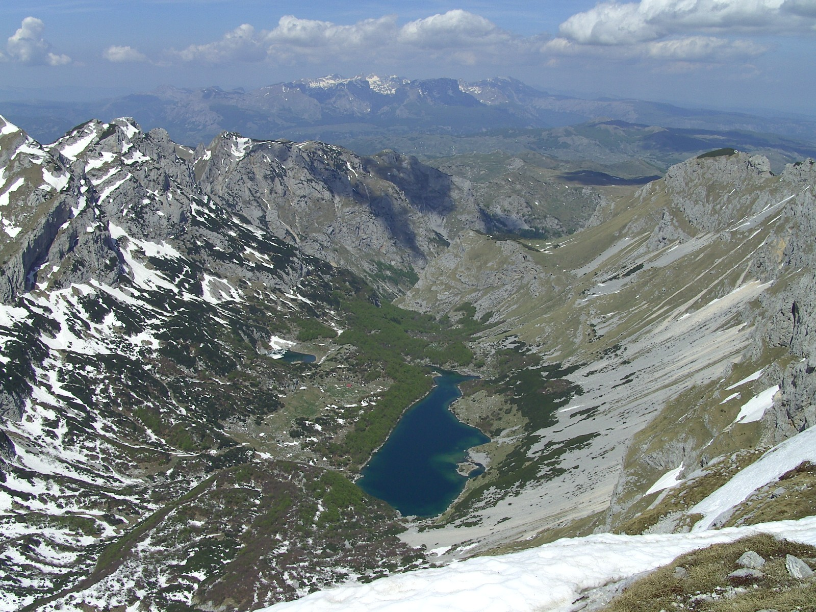 Veliko and Malo (Big and Small) Škrčko Lakes in the Durmitor mountains, Montenegro